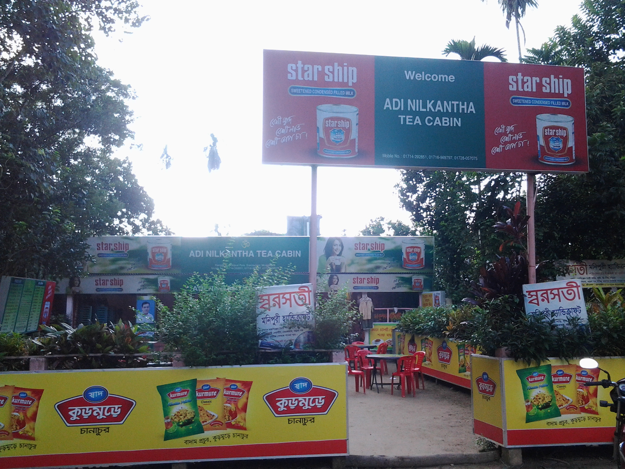 Adi nilkonto tea cabin, srimongol